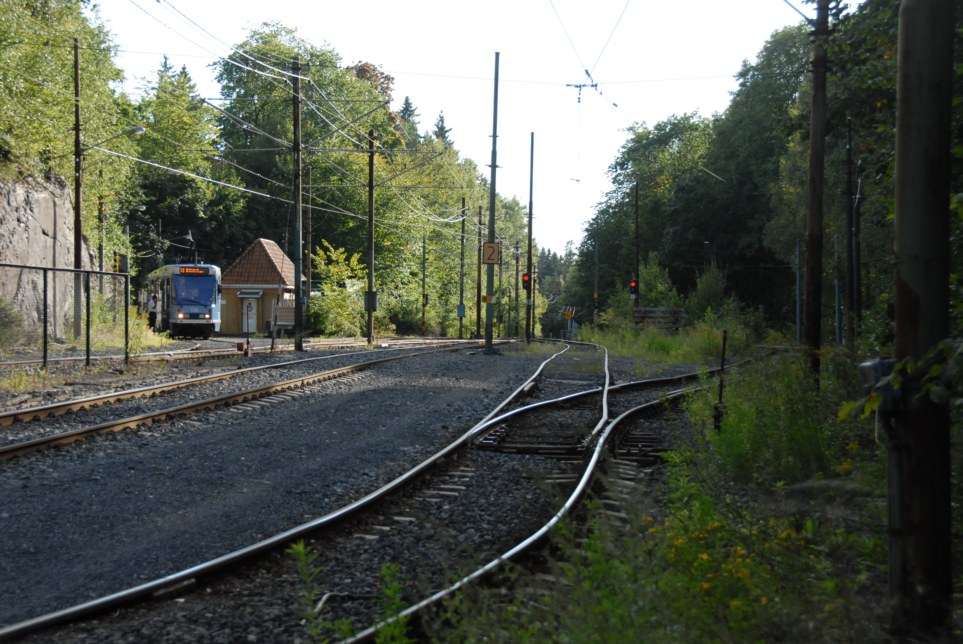 Oslo tram turning at Jar